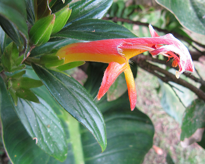 A Costa Rican species, photo from Bosque del Paz reserve. In context at